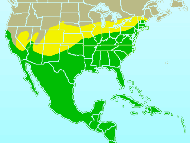 Approximate range/distribution map of the Northern Mockingbird (Mimus polyglottos). In keeping with WikiProject: Birds guidelines, yellow indicates the summer-only range, blue indicates the winter-only range, and green indicates the year-round range of the species.